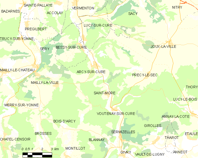 Map of French municipality Arcy-sur-Cure